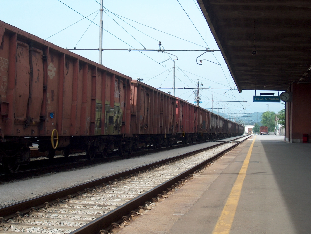 Train station of Villa Opicina, Italy in 2006